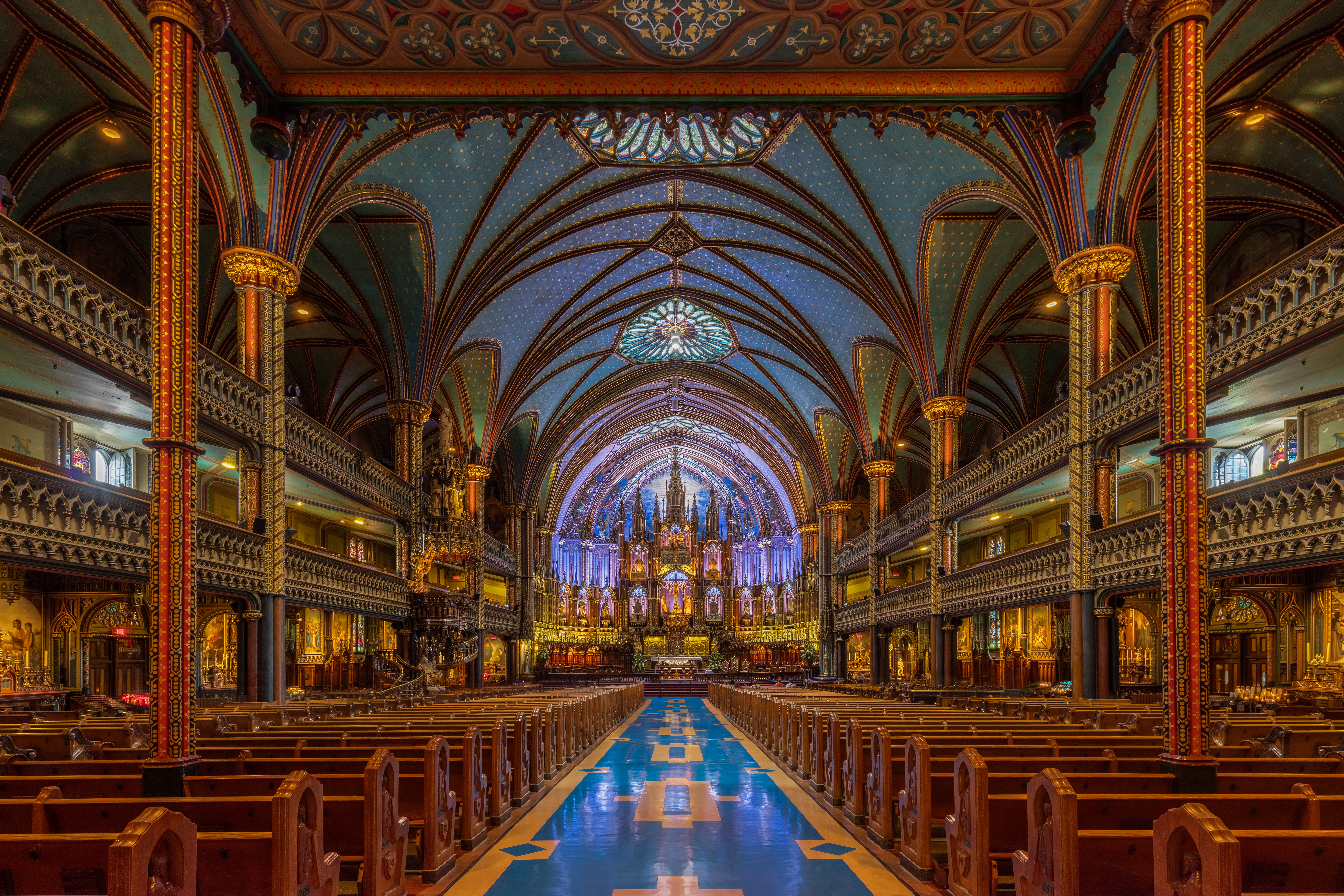 Interior of the Notre-Dame Basilica, located in the historic district of Old Montreal, in Montreal, Quebec, Canada. The interior of the basilica, built in Gothic Revival style, is impressive with vivid colors, stars and filled with hundreds of intricate wooden carvings and several religious statues. It was built between 1823 and 1829 after a design of James O'Donnell and it has become one of the landmarks of the city.